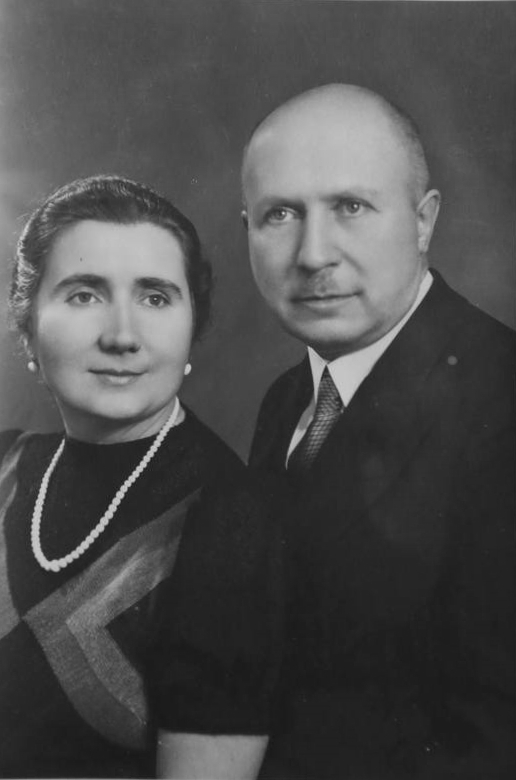 Józefina and Sergiusz Toll [1893–1961] (married), Sergiusz was Polish entomologist, lepidopterist